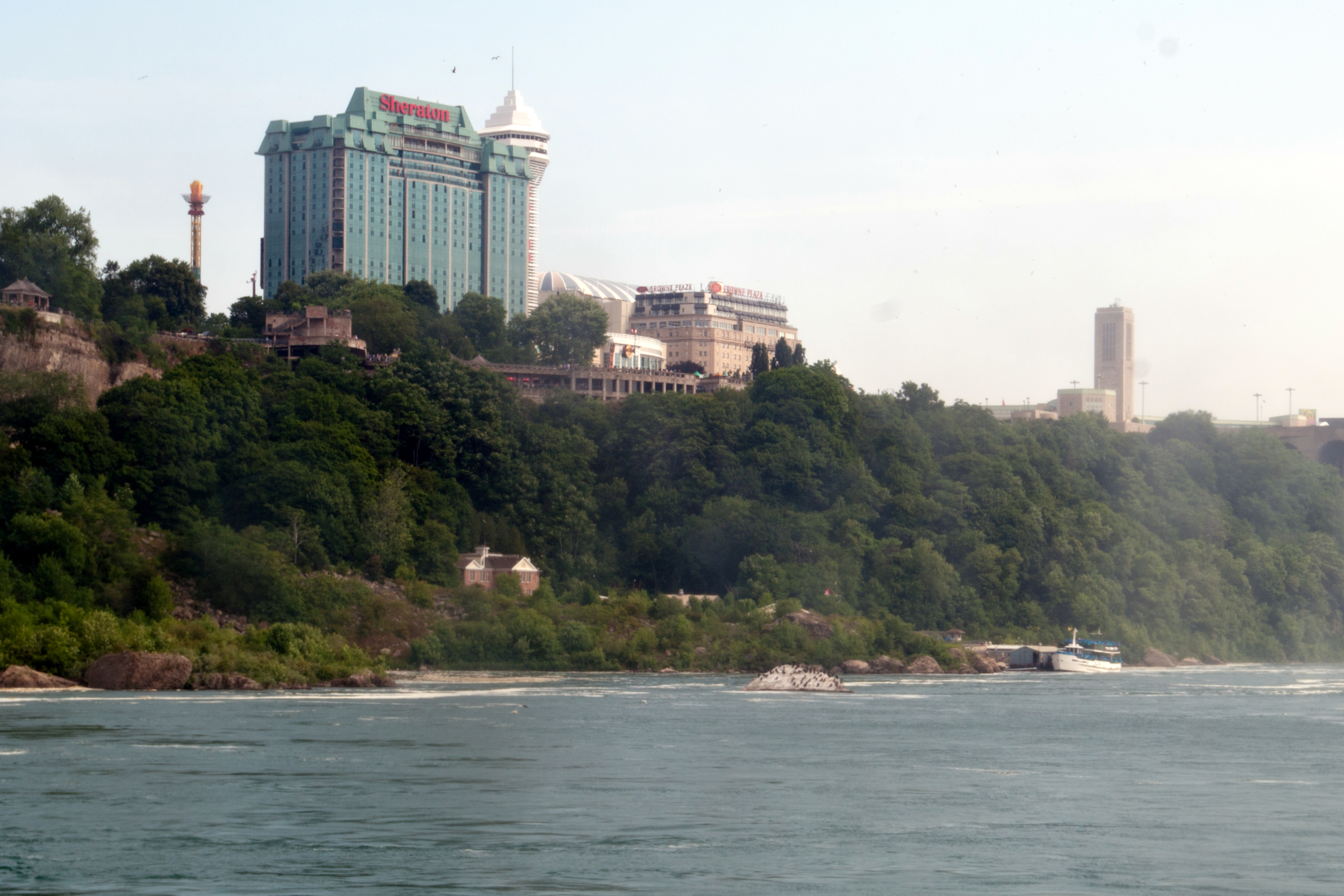 Niagara Falls and Sheraton as seen from the Niagara River